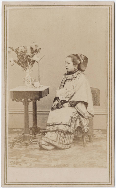 Author/Creator: Bradley & Rulofson. Part of: Carl Mautz collection of cartes-de-visite photographs created by California photographers. Physical Description: 1 photographic print cartes-de-visite, b&w approx. 9.0 x 5.7 cm. on mounts 10.7 x 6.5 cm. Folder or box number: Folder Bradley & Rulofson Subjects: Asian Americans--Pictorial subjects. Genre/Form: Photographs Cartes-de-visite Photographic prints Studio portraits Cite as: Yale Collection of Western Americana, Beinecke Rare Book and Manuscript Library Repository: Beinecke Rare Book & Manuscript Library, Yale University Bibliographic Record Number: 2015087 Call Number: WA Photos 357 View our Record: Permalink Flickr data on 2011-08-25: License: CC BY-SA 2.0 User: Beinecke Library